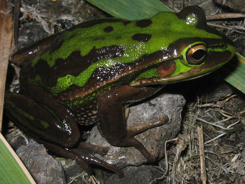 A female Green and Golden Bell Frog (Litoria aurea) with dark colouration.